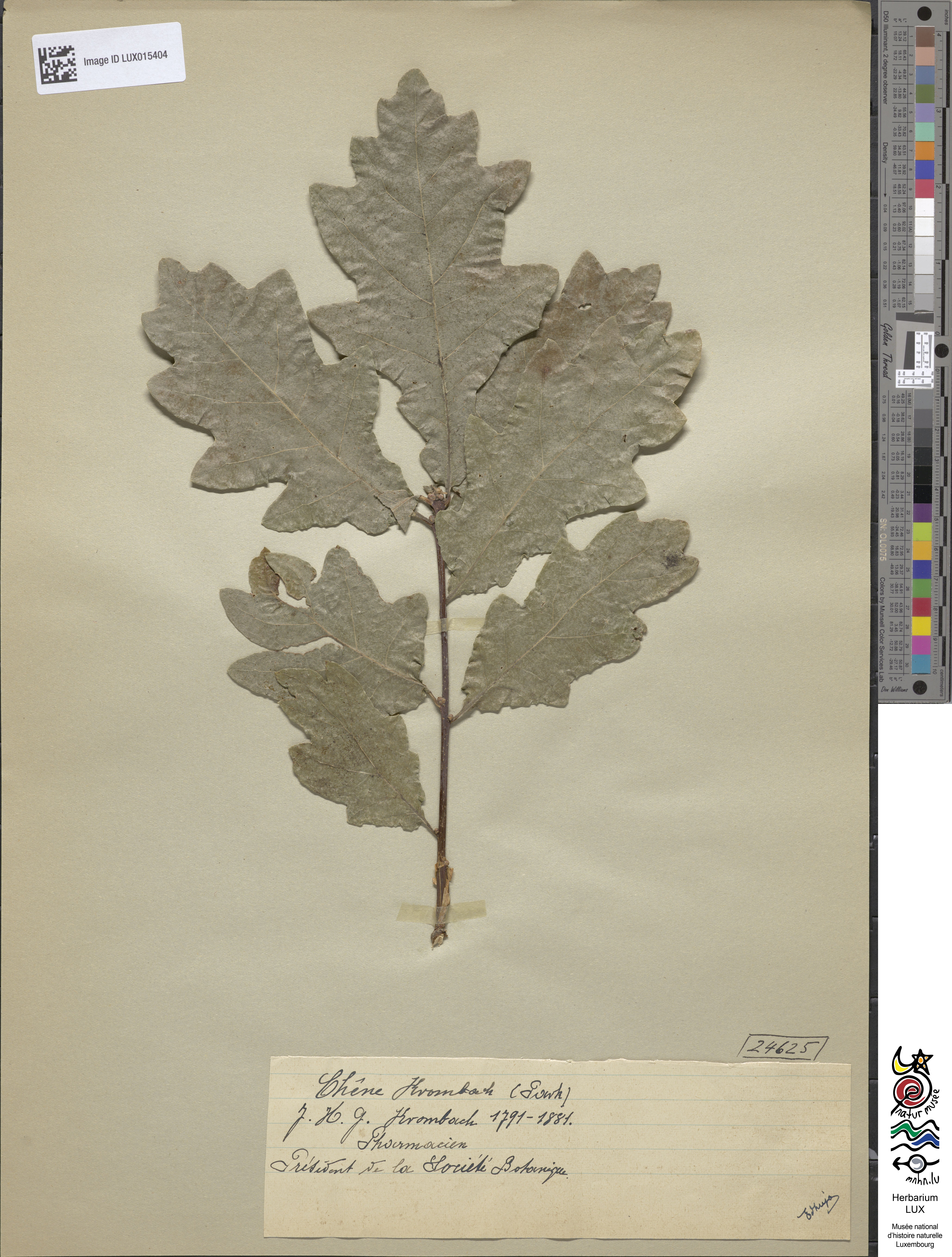 Herbarium sheet in the HerbariumLUX of chêne Krombach (memorial for Jean-Henri-Guillaume Krombach) located in parc Louvigny Luxembourg